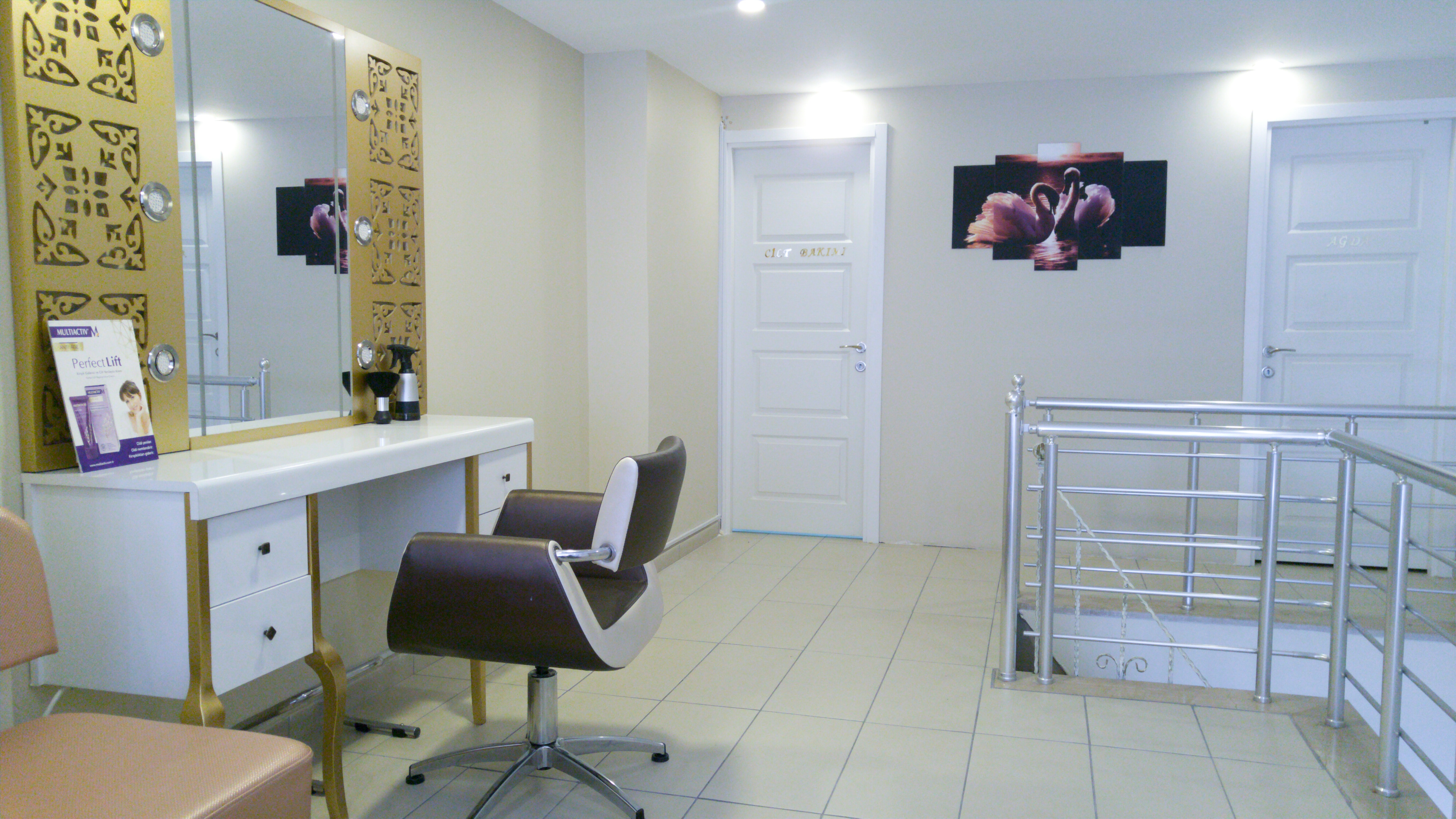 A barber (from the Latin barba, "beard") is a person whose occupation is mainly to cut, dress, groom, style and shave men’s and boys' hair.